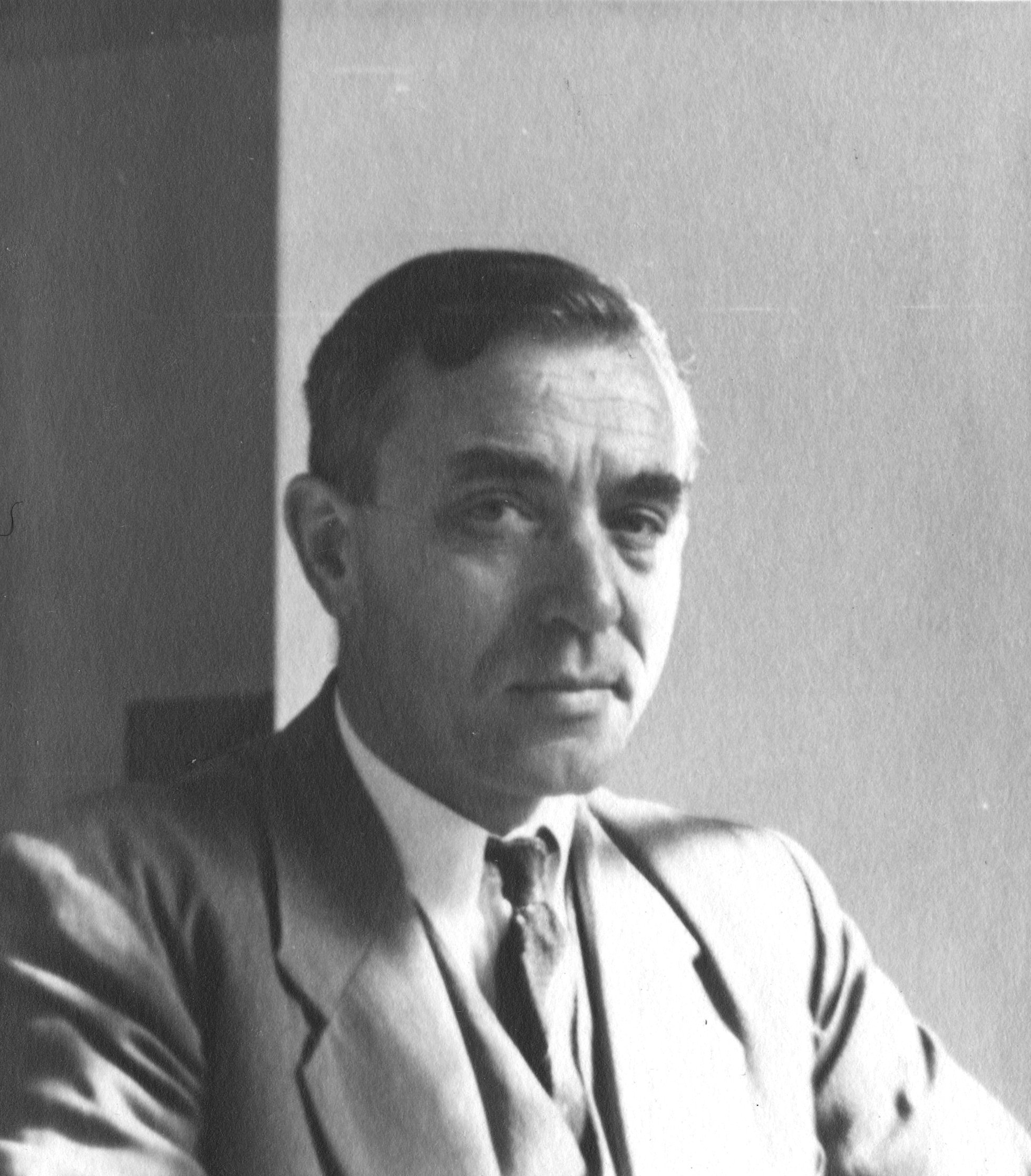 Format: Fotopositiv Dato / Date: Mars / April 1940 Fotograf / Photographer: Ukjent, mulig Johan Eggen Sted / Place: NTH, Trondheim Eier / Owner Institution: Trondheim byarkiv, The Municipal Archives of Trondheim Arkivreferanse / Archive reference: Tor.H42.B58.F4194 Merknad: Fra Johan Eggens privatarkiv. Lyse, Inge, f. 22. 10. 1898 i Forsand, sønn av bonde Peder Kr. L. og Martha Leikvam. B.ing. NTH 1923, dr. techn. sst. 1937. B. ing. Southern California Edison Co., Los Angeles Calif. 1924-25, forskn.ing. Stevenson Creek Experimental Dam, Calif. 1925-27, forskn.ing. Portland Cement Assoc., Chicago 1927-31, professor Lehigh University, Bethlehem Pa. 1931-38, siden professor NTH. UNESCO-ekspert i India 1951-53, form. Norsk Betongforening 1955-58, pres. Norges Tekniske Vitenskapsakademi 1955-58. Utg. Lærebok i betong. Gullmed. for tekn. avh., Franklin Institute 1937, gullmed. for tekn. avh., American Society of Civil Engineers 1937. Bassøe, Bjarne: Ingeniørmatrikkelen Norske Sivilingeniører 1901-55 med tillegg (Oslo 1961)